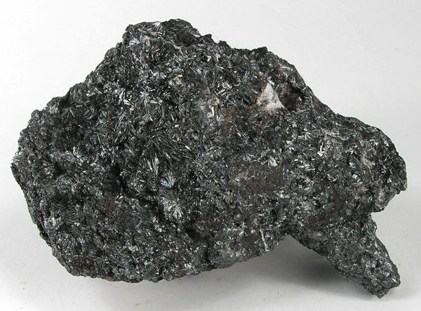 Pyrolusite Locality: Magma Mine (Magma Superior Mine; Irene claim; Hub claim; Pomeroy; Superior Division; Silver Queen; Monarch claim; Magma Copper Mine; Broken Hill; Apex), Superior, Pioneer District, Pinal Mts, Pinal County, Arizona, USA (Locality at ) Size: 9.8 x 6.3 x 3.4 cm. A rare, old-time specimen of nearly solid pyrolusite from the Magma Mine at Superior, Arizona. The matrix is covered on both sides with metallic-bright, radial sprays of pyrolusite lathes to 1.1 cm. Ex. Mullane Collection.